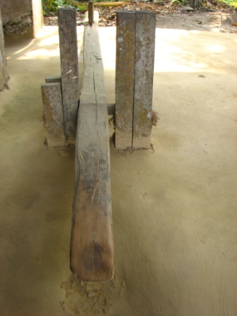 Dhenki of Assam. The tail to head view when standing. This photograph was taken at a village called "Mothaoni" in Dibrugarh district of Assam, India.অসমীয়া: নিচেই ওচৰৰ অংশ "ফিছা"ৰ পৰা অগ্ৰভাগলৈ থকা অংশৰ দৃশ্য